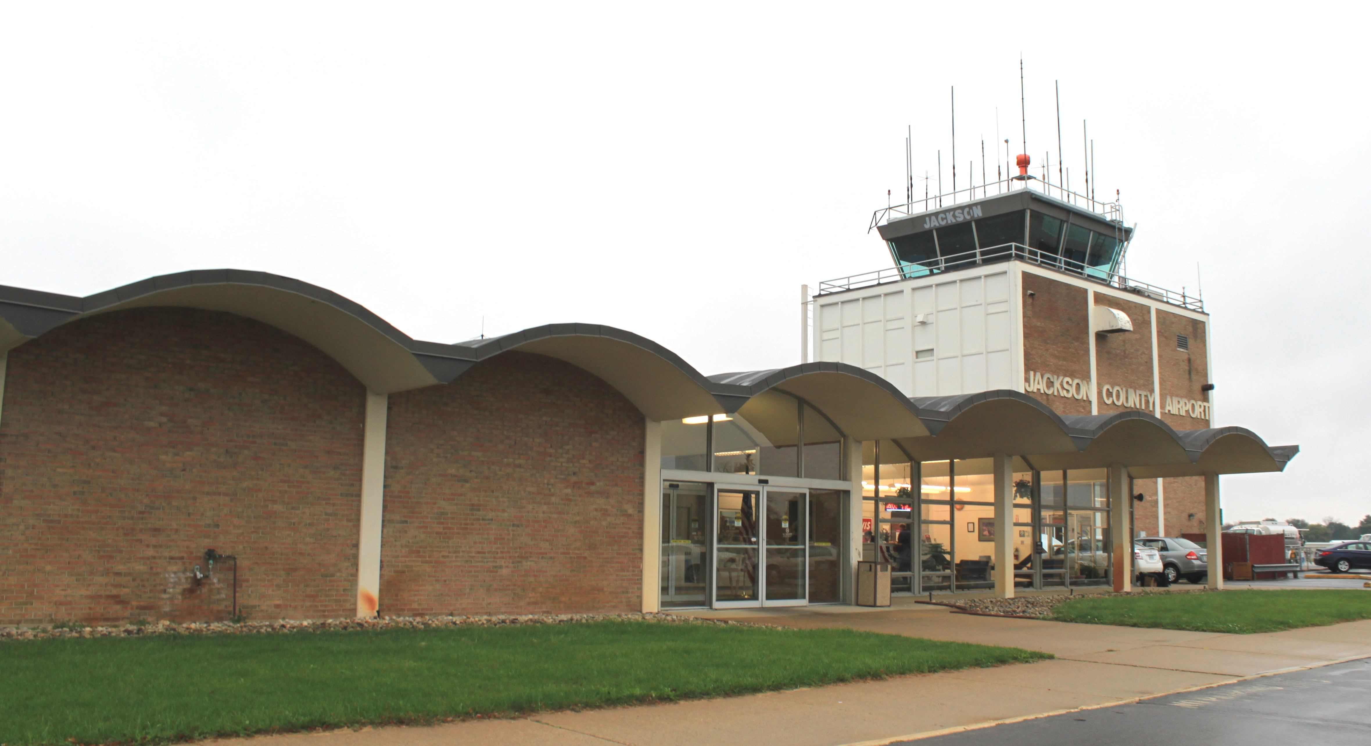 Jackson County Airport terminal and control tower, 3608 Wildwood Ave, Jackson, Michigan